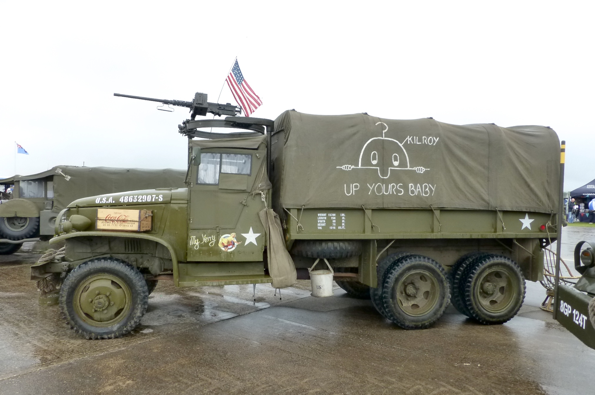 US Army truck with kilroy